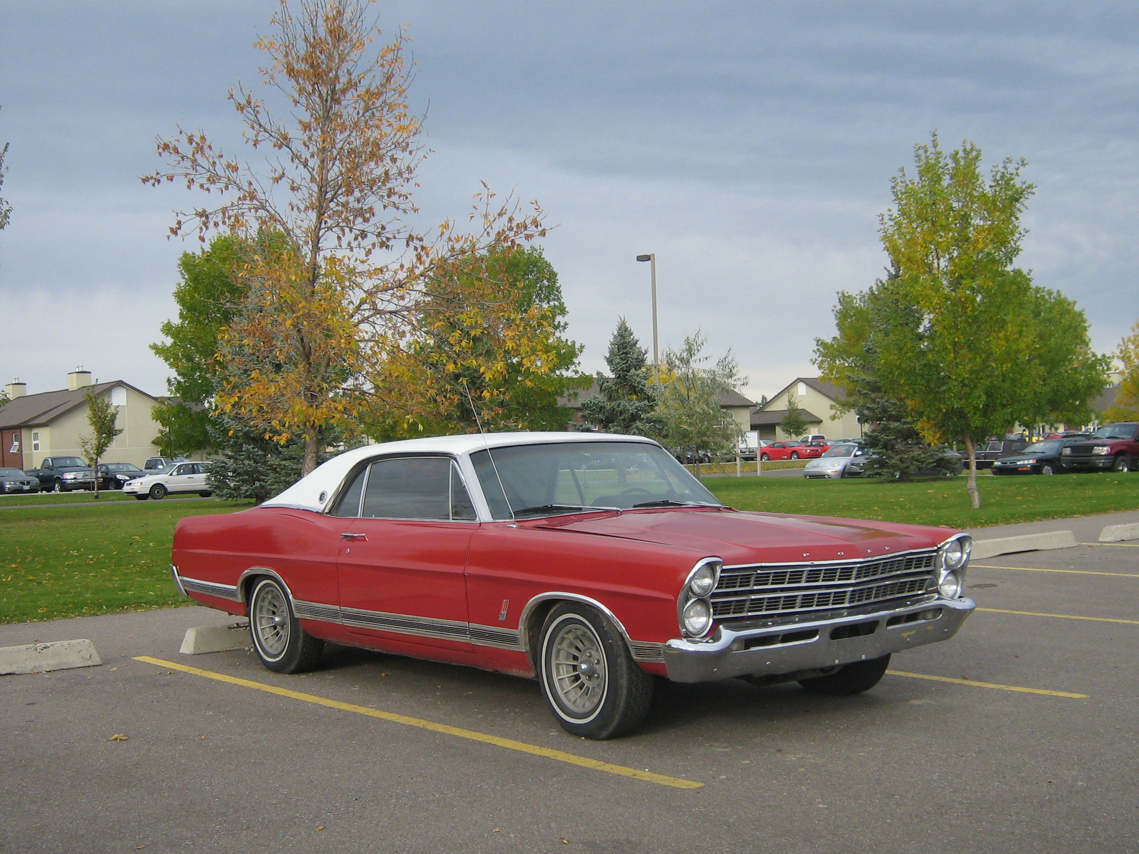 1967 Galaxie LTD 500 with 390cid V8.